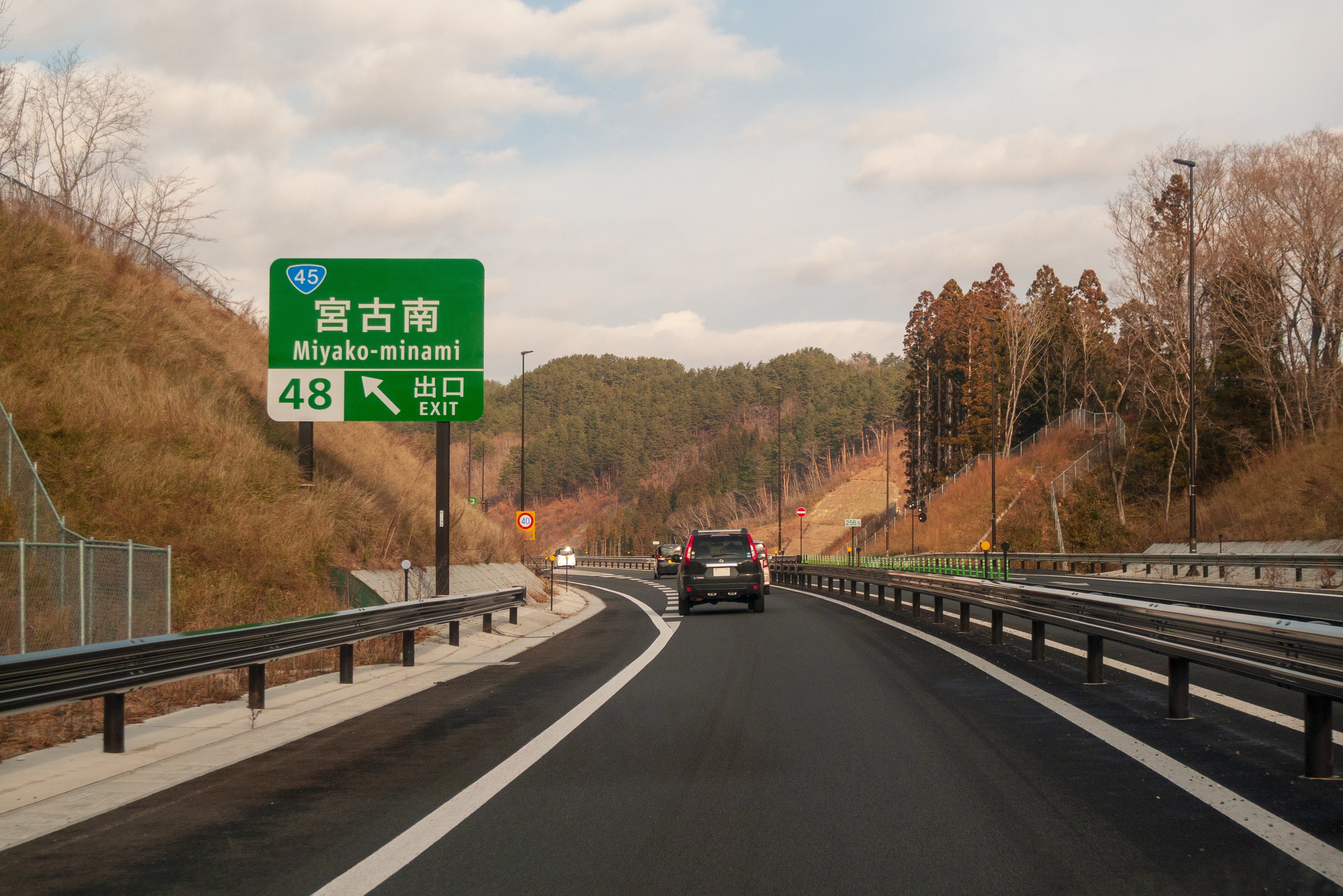 Exit of Miyako-minami Interchange on the Sanriku Expressway northbound line in Miyako City, Iwate Prefecture, Japan